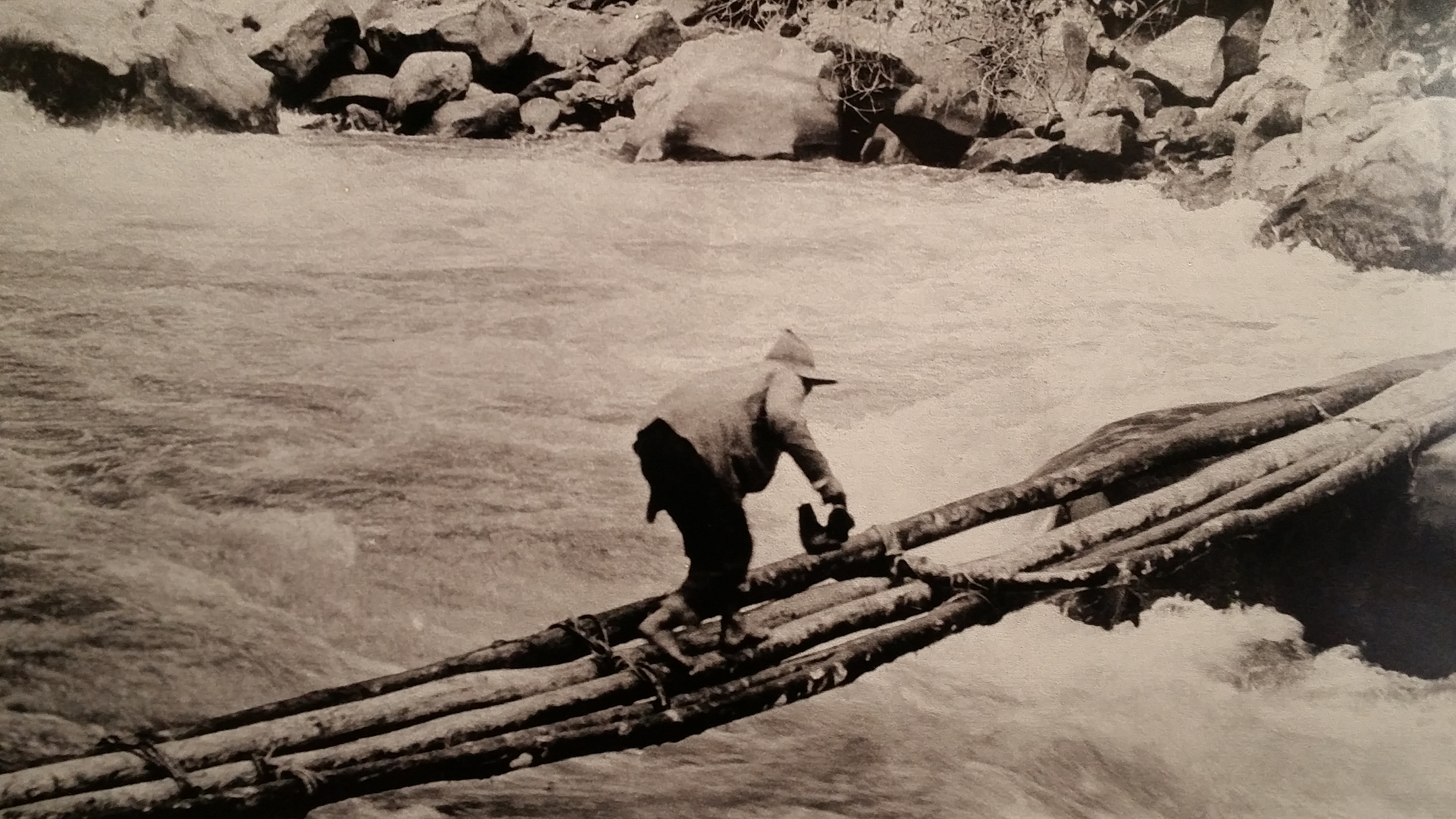 Melchor Arteaga crossing the Urubamba River on 24 July 1911